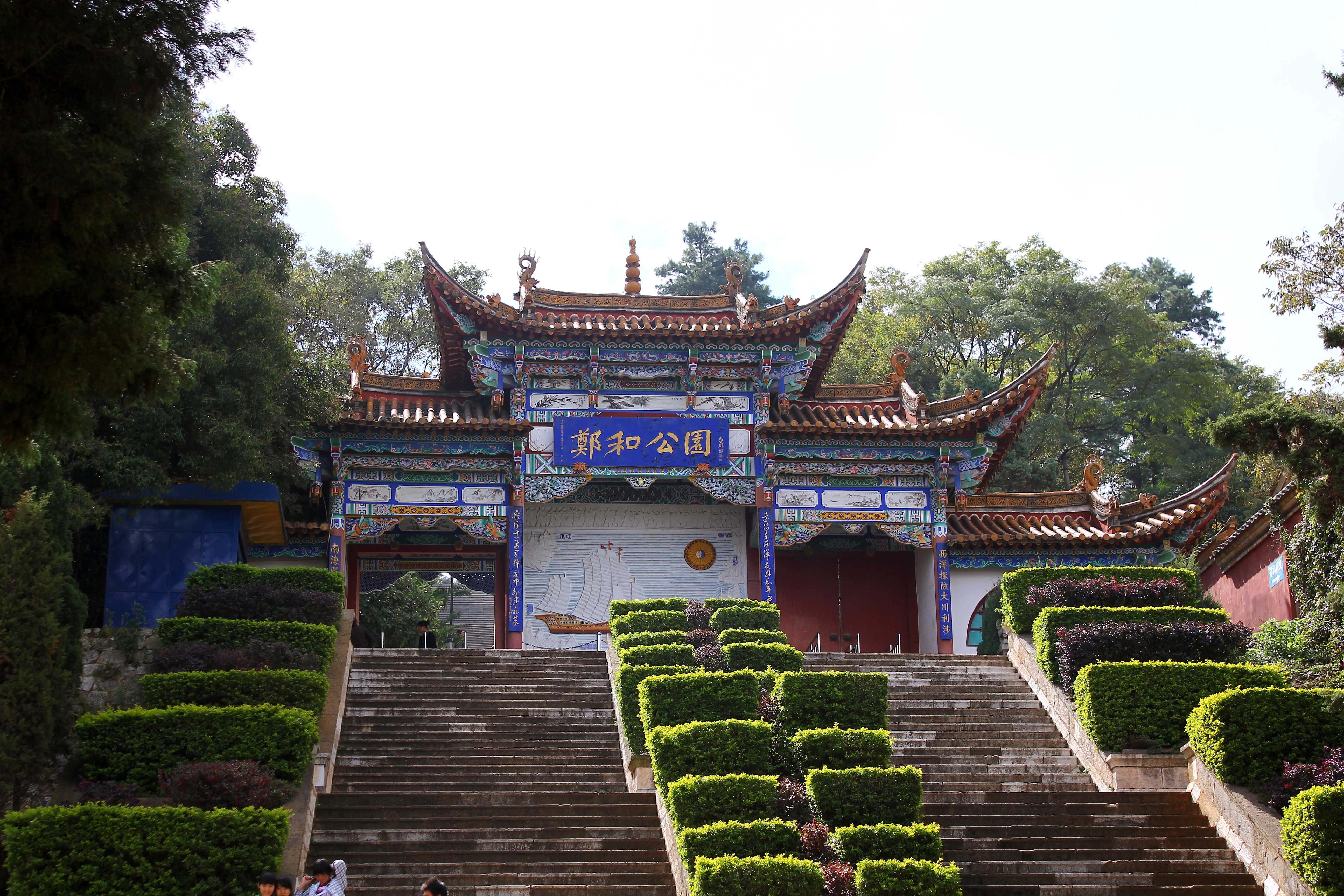 Zheng He Park in Jinning